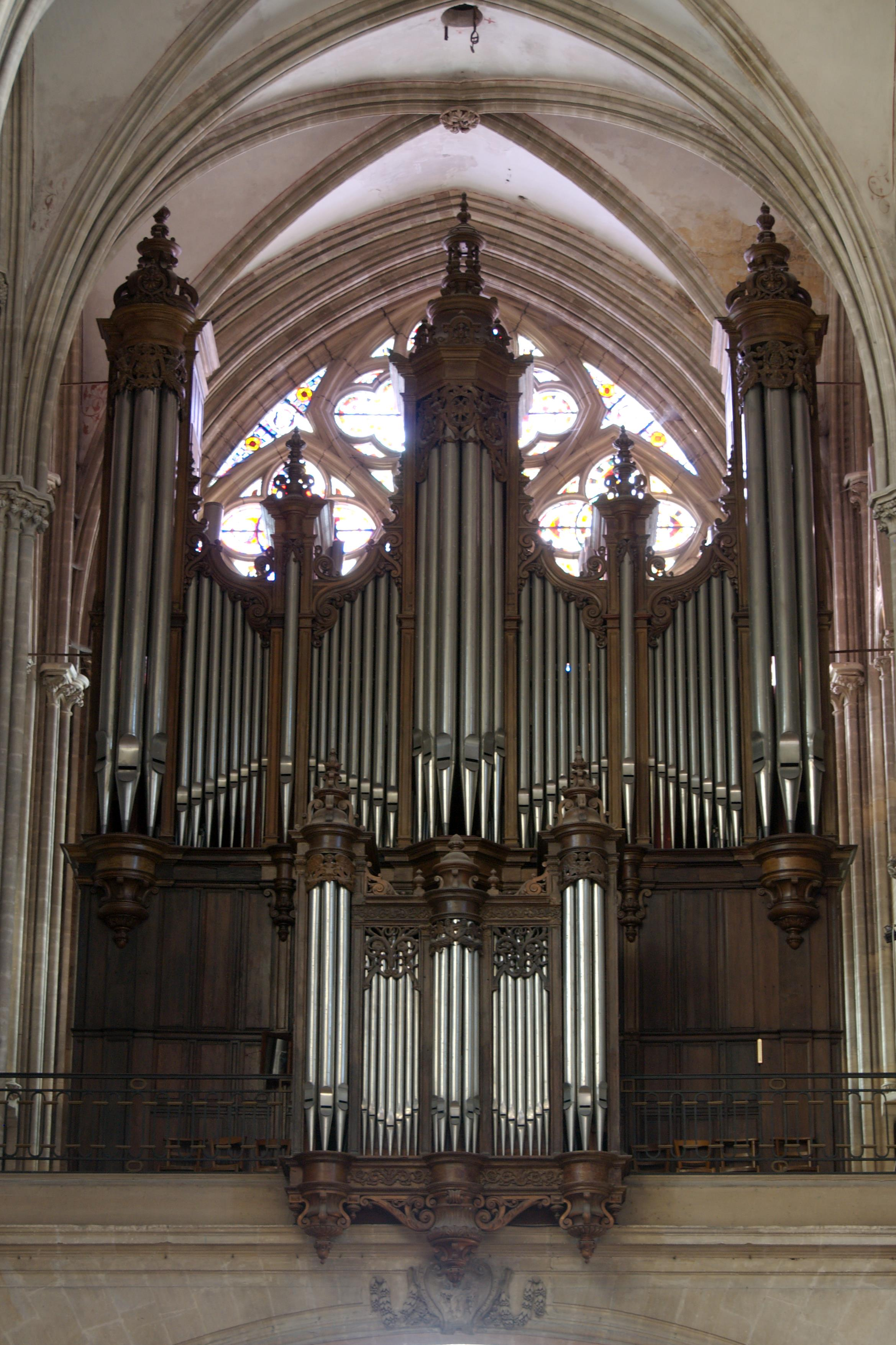 Organ of the cathedral of Bayeux